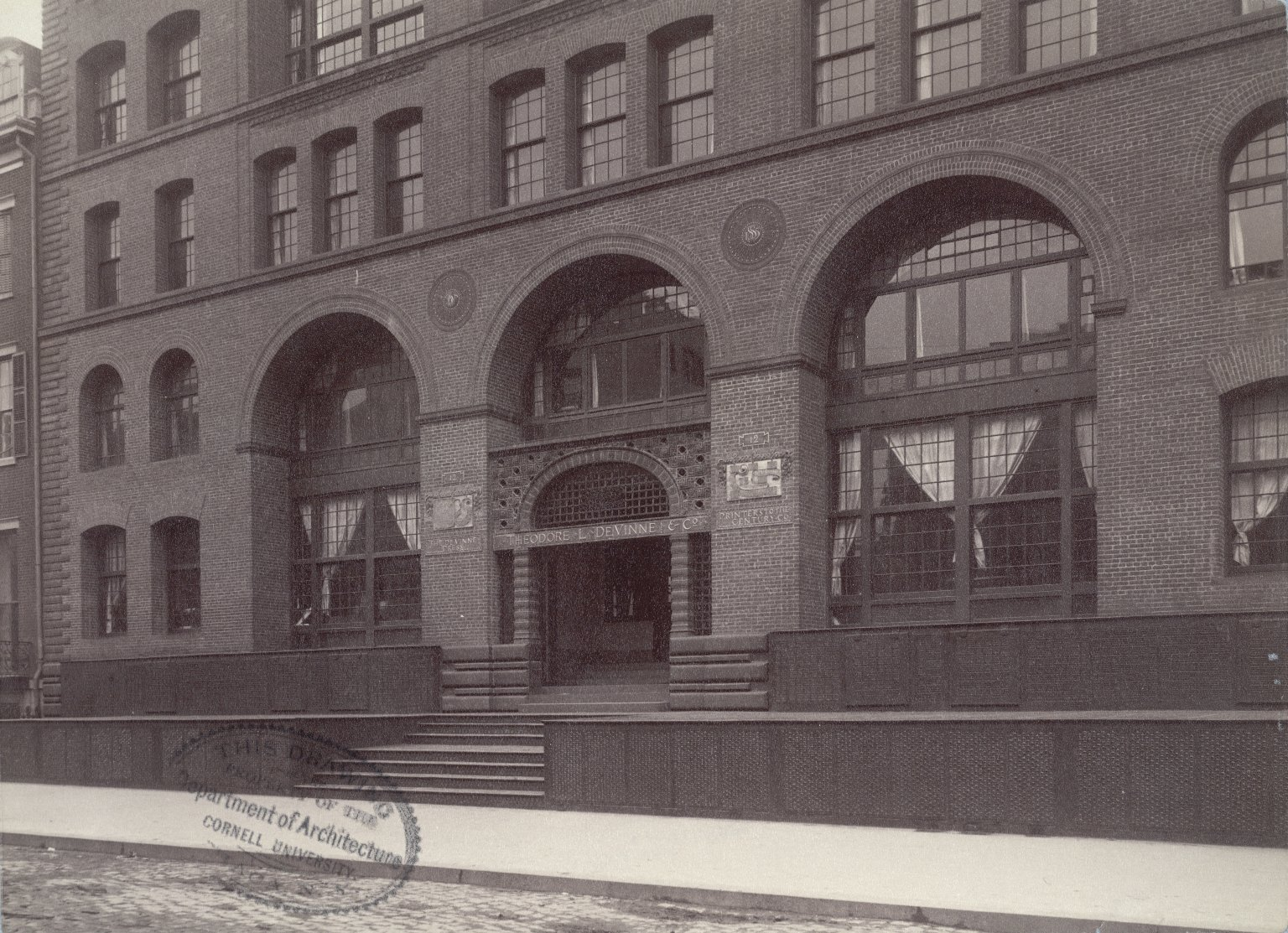 Collection: A. D. White Architectural Photographs, Cornell University Library Accession Number: 15/5/3090.00505 Title: DeVinne Press Building, Greenwich Village Architect: Babb, Cook & Willard (American, 1884-) Photograph date: ca. 1885-ca. 1895 Building Date: 1885 Location: North and Central America: United States; New York, New York Materials: albumen print Image: 6 x 8 1/4 in.; 15.24 x 20.955 cm Provenance: Transfer from the College of Architecture, Art and Planning Persistent URI: There are no known U.S. copyright restrictions on this image. The digital file is owned by the Cornell University Library which is making it freely available with the request that, when possible, the Library be credited as its source. We had some help with the geocoding from